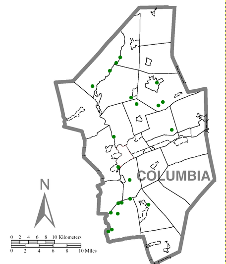 A map of the approximate location of all existing covered bridges in Columbia County, Pennsylvania, as of 2007. The green dots are the bridges.